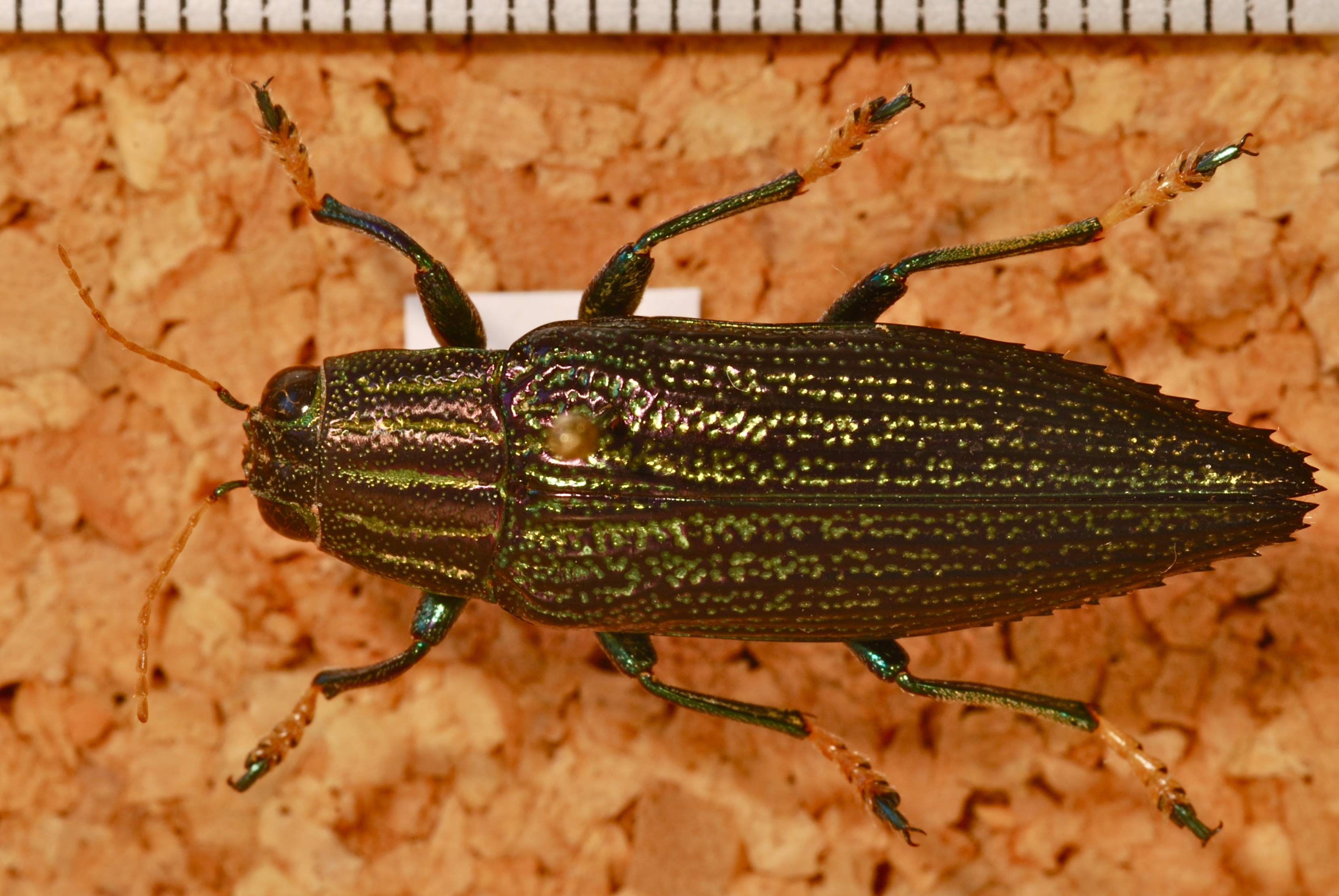 Bacan Island, INDONESIA